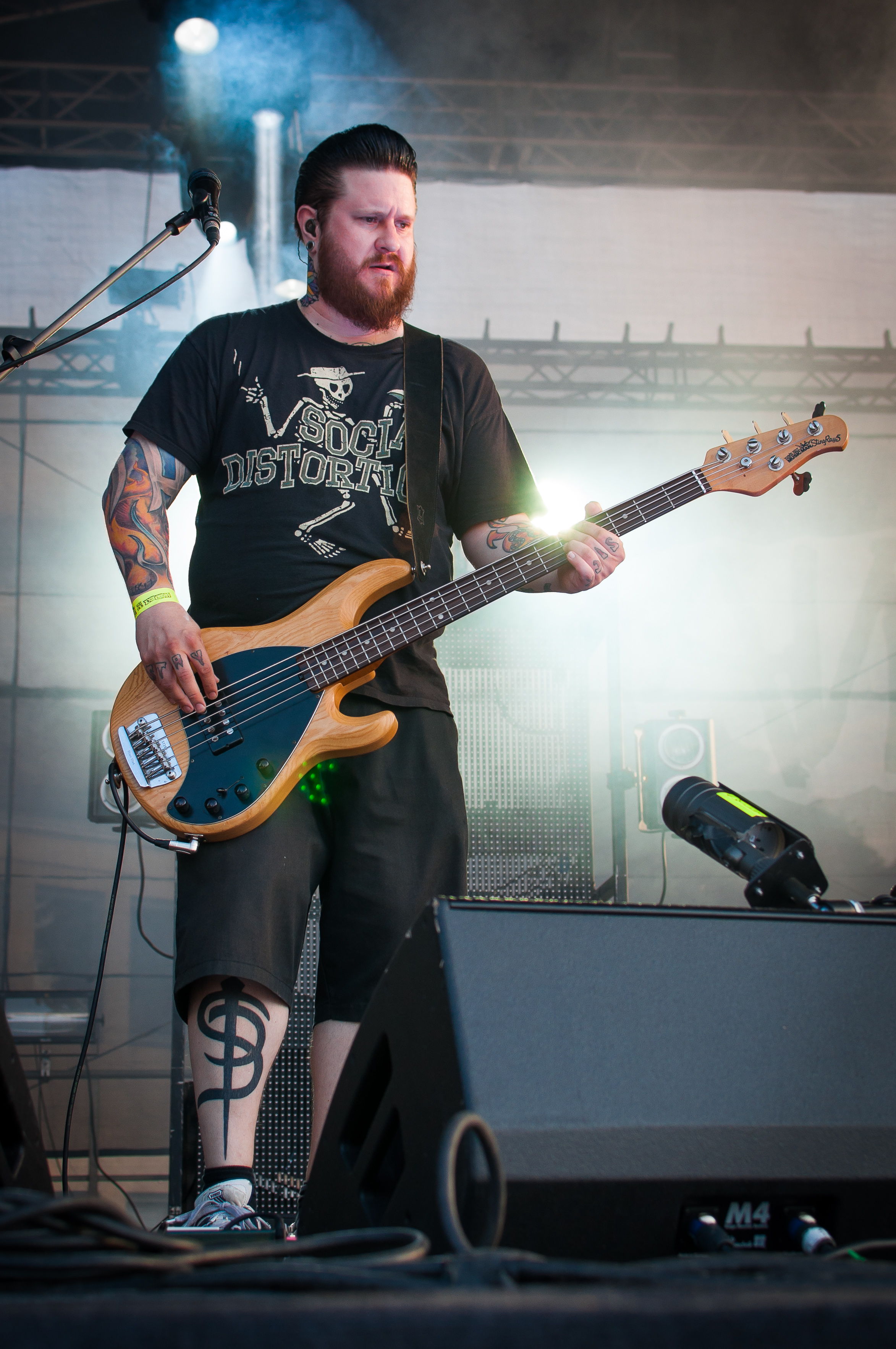 Finnish bassist Ville Mäkinen of Apulanta performing at the 2014 Rakuuna Rock festival in Lappeenranta, Finland.